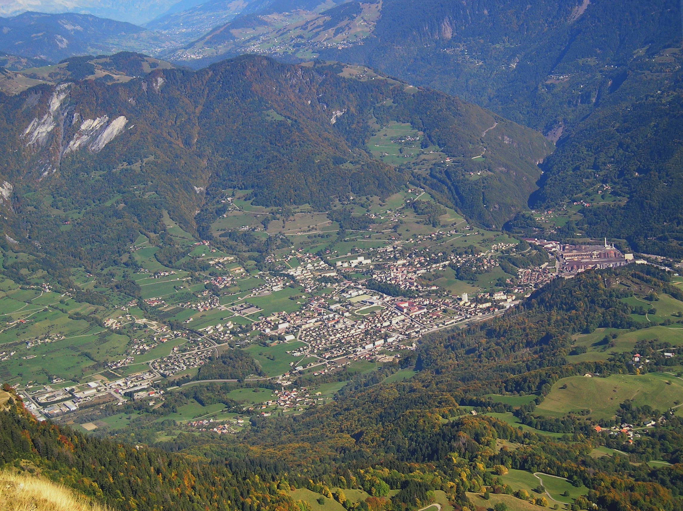 French city of Ugine in Savoie, seen from the dent de Cons mount.